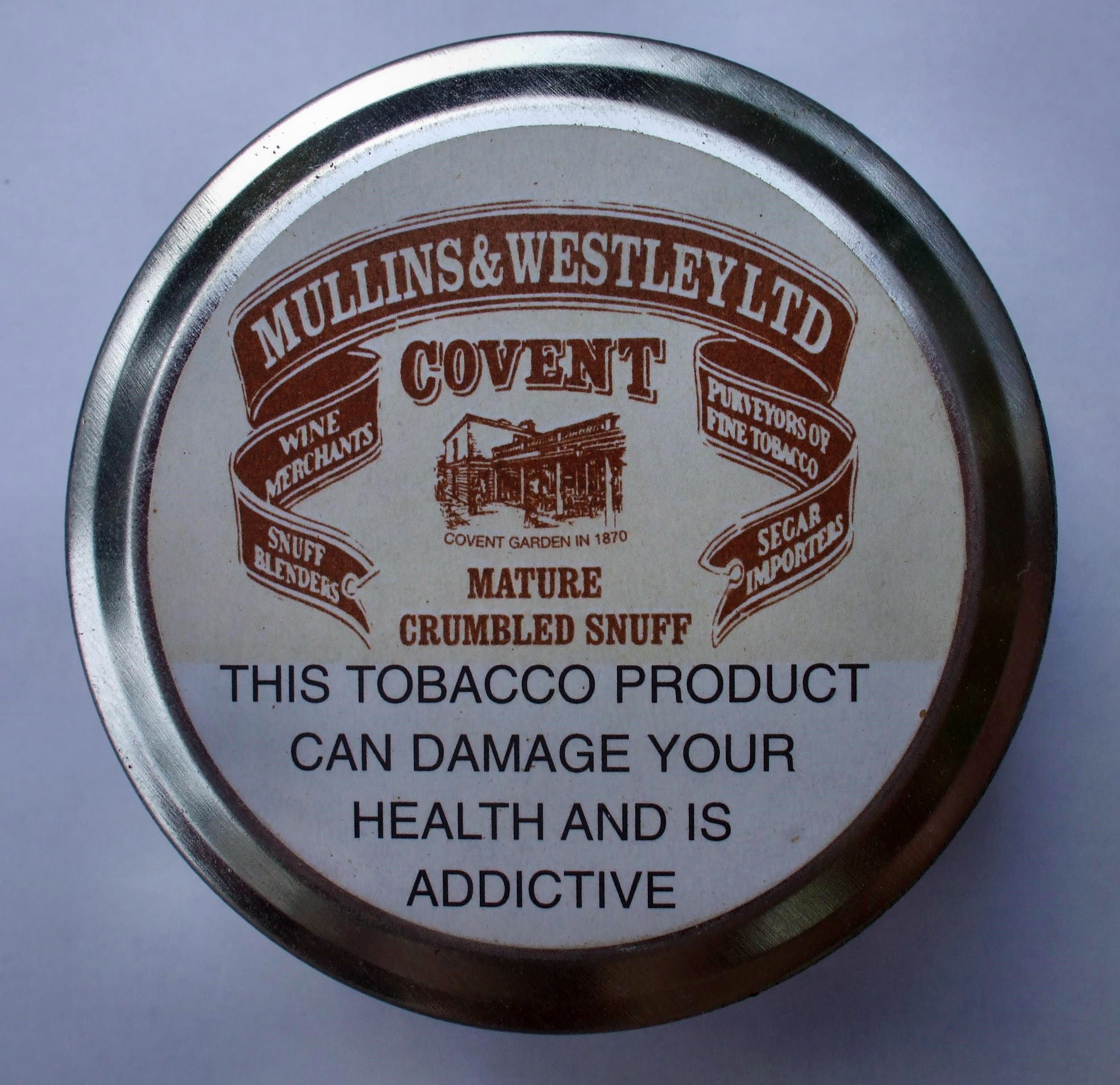 Mullins & Westley Snuff Tin